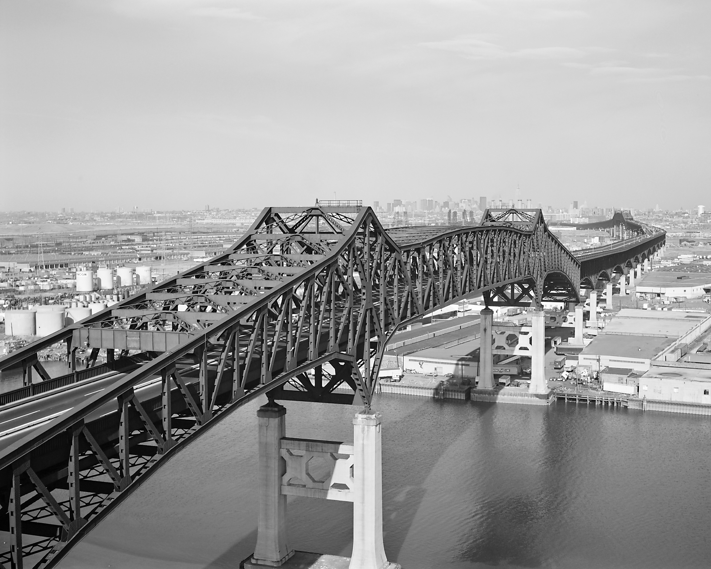 Pulaski Skyway — spanning the Passaic & Hackensack Rivers, Jersey City, Hudson County, New Jersey. Close up view looking obliquely upstream of the cantilever through the truss over the Passaic River. 1978 image: HABS—Historic American Buildings Survey of New Jersey.